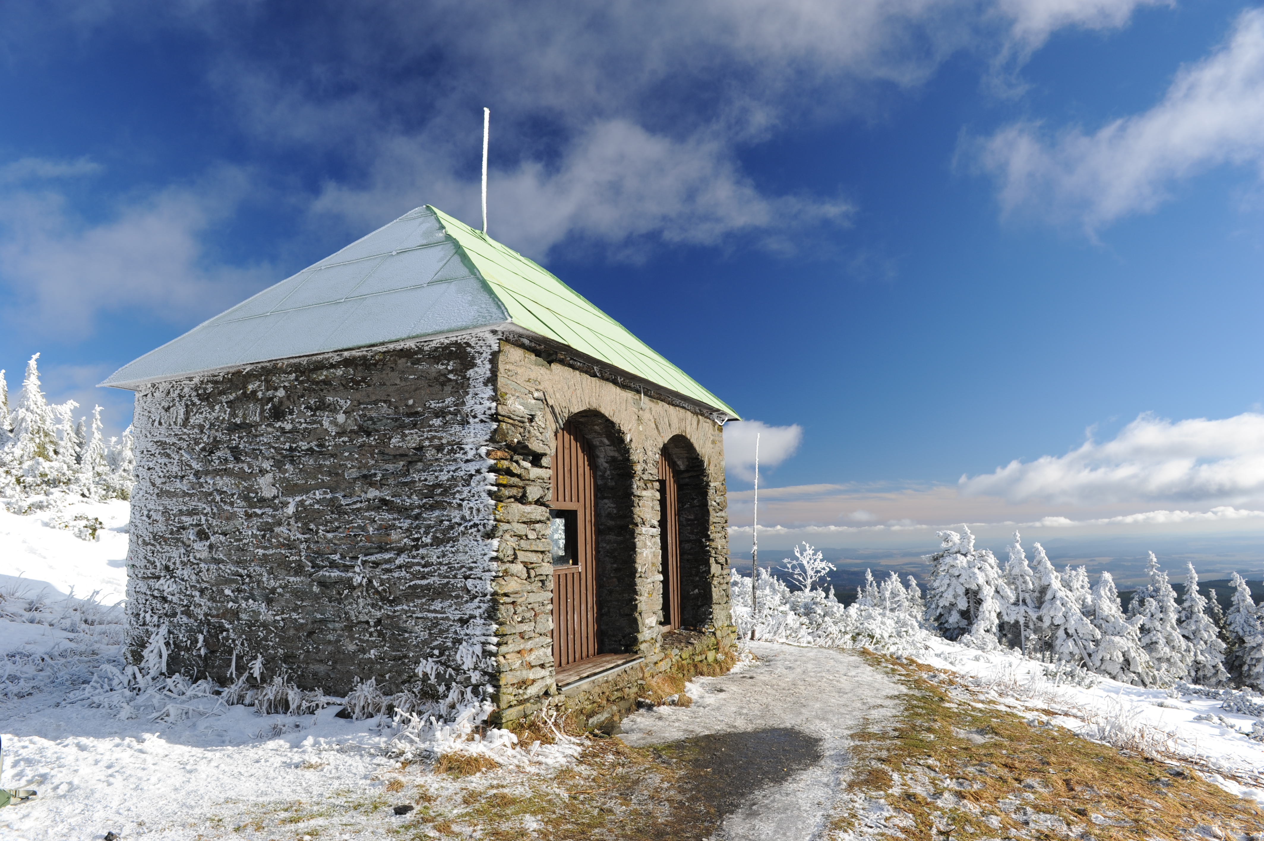 Chalet at Jelení studánka, Jeseníky mountains